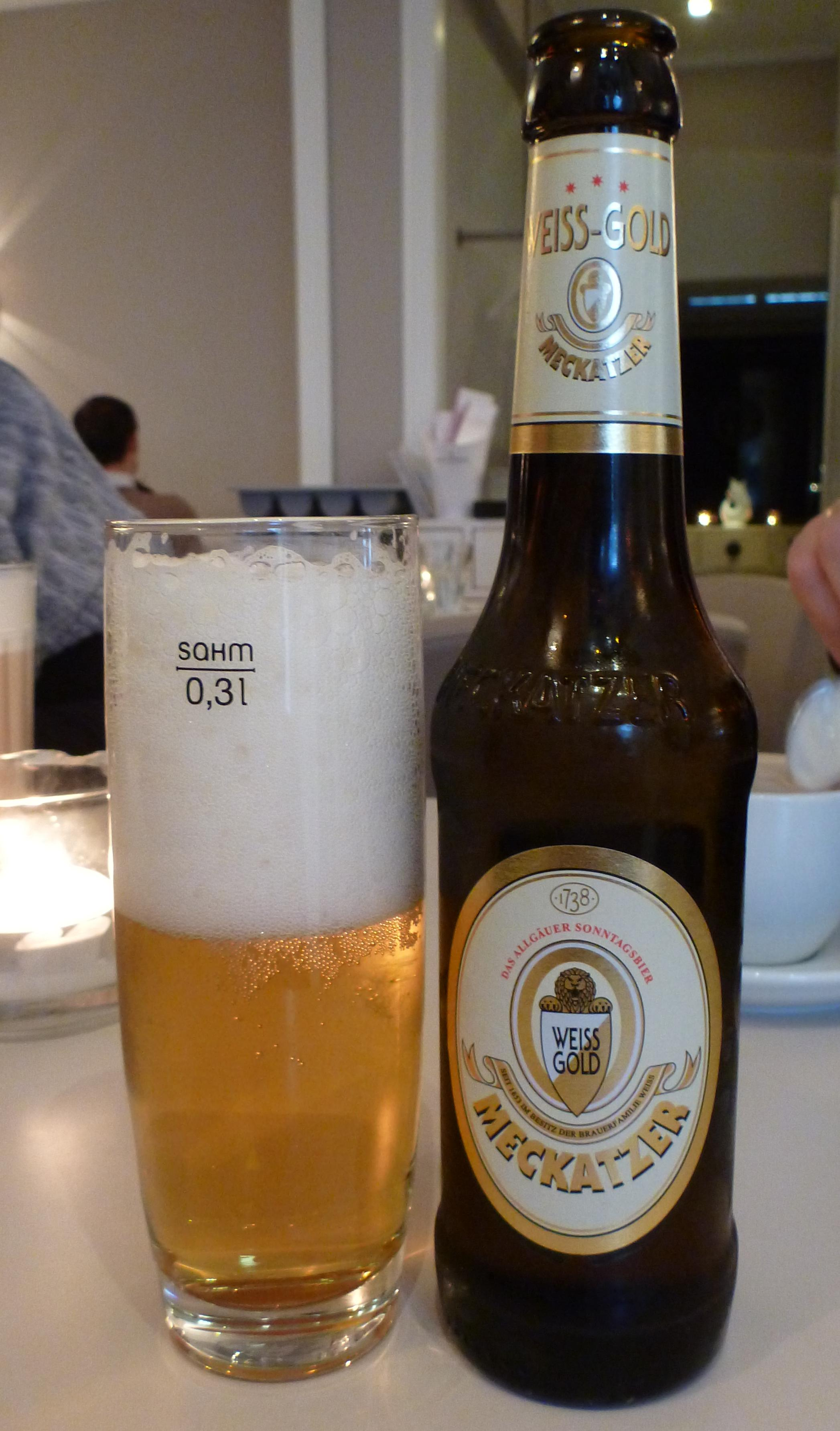 Bottle Meckatzer Weiss Gold and glas